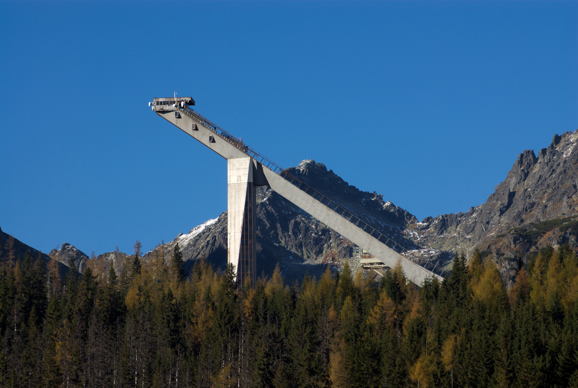 Vysoké Tatry Auto Chinon Zoom MC f4-5.6/35-200mm